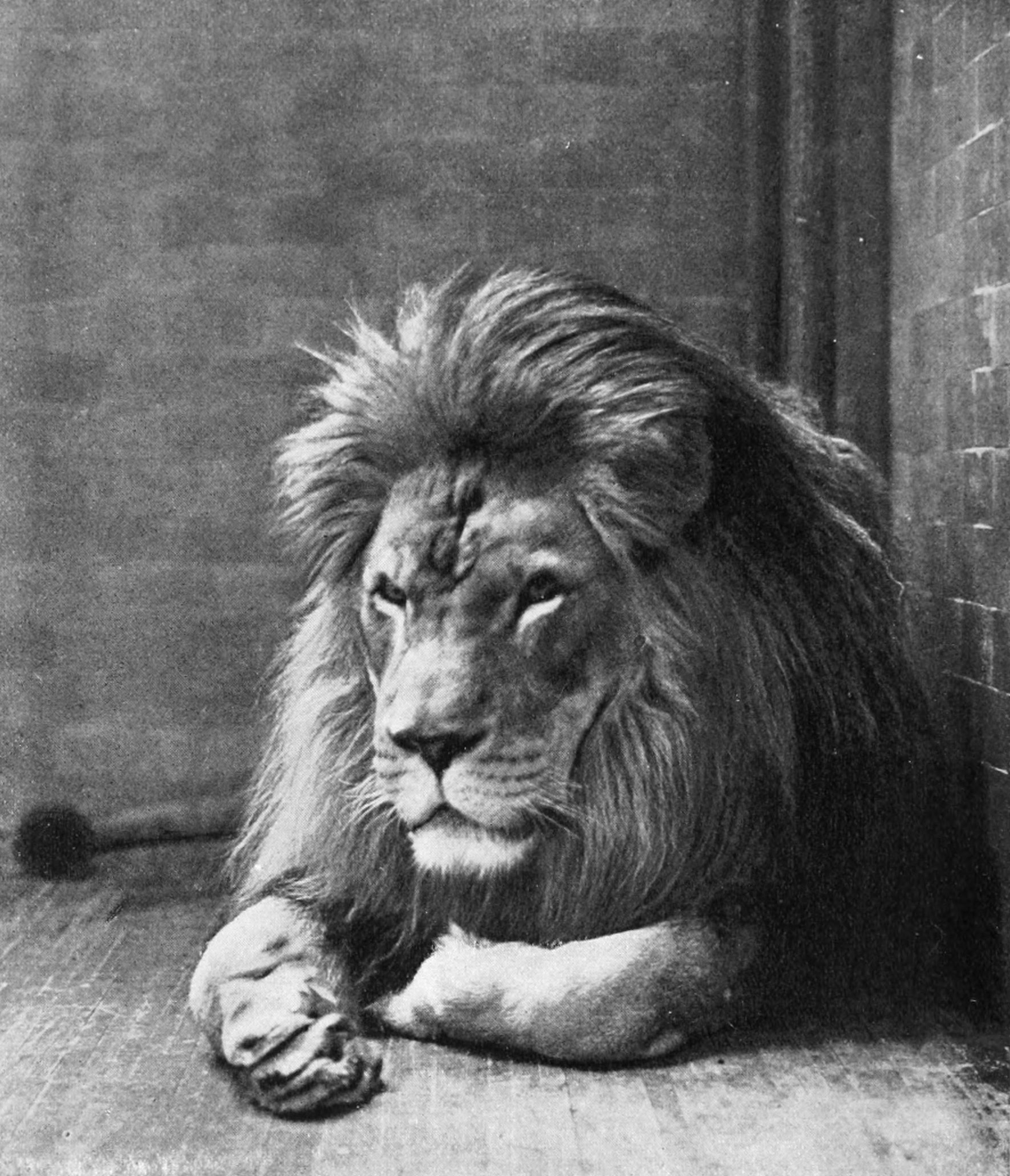 Sultan the Barbary Lion, New York Zoo.